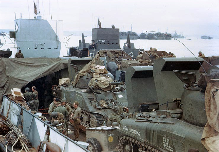 U.S. Army M4 "Sherman" tanks of Company A, 741st Tank Battalion and other equipment loaded in an LCT, ready for the invasion of France, circa late May or early June 1944. One tank has a welded hull. The other (marked "USA 3036947") has a cast armor hull. Both have extended air intakes for operations in water. Note the markings "1A-741Δ" ("First Army - 741st Tank Bn") on the trailer are consistent with what should be found on a 741st vehicle. USS LCT-213 is tied up alongside and several LSTs are anchored out in the harbor of this southern English port.